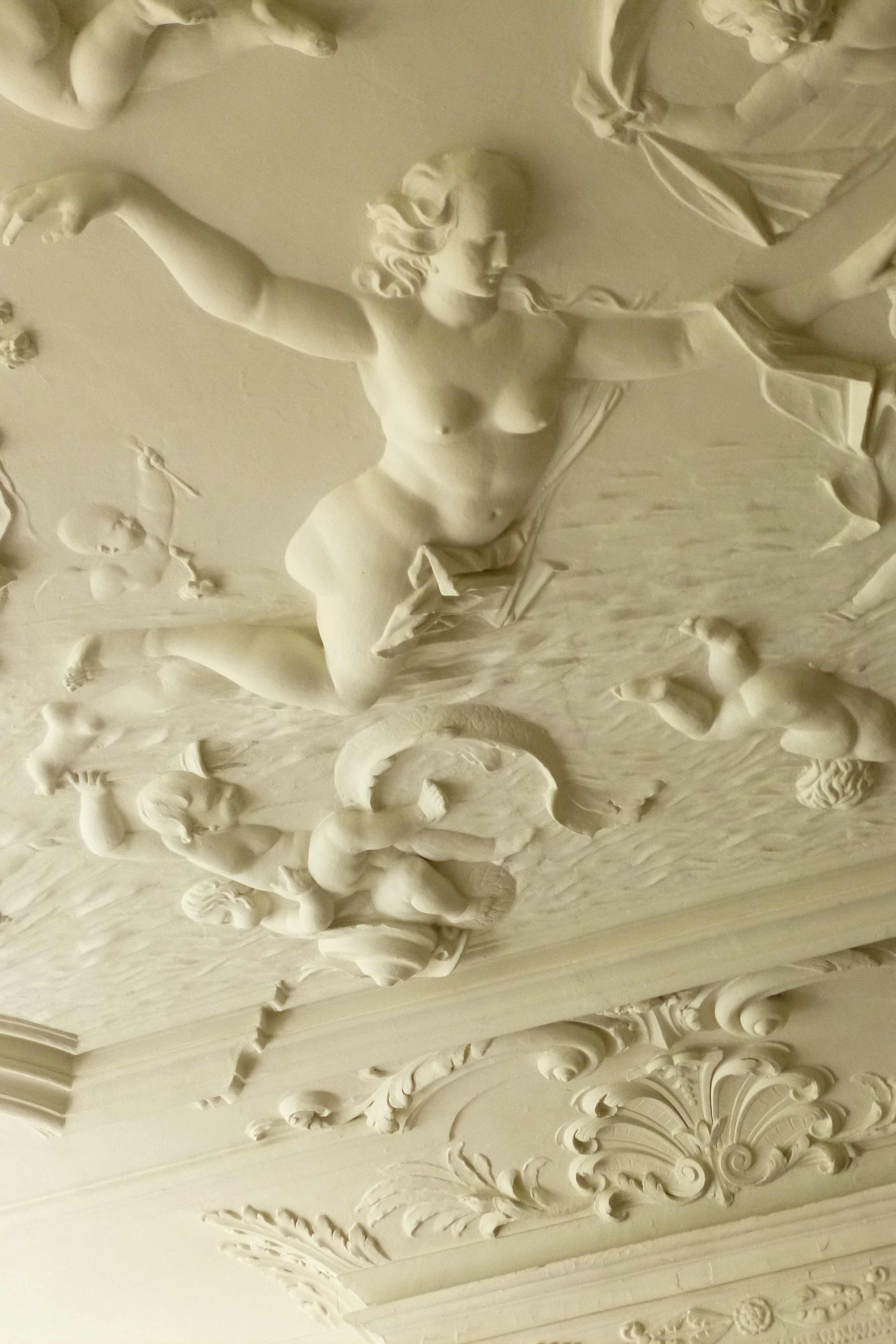 Nieuwe Herengracht 143 detail ceiling with Venus